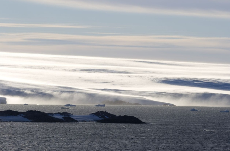 Catabatic Wind, Antarctica.